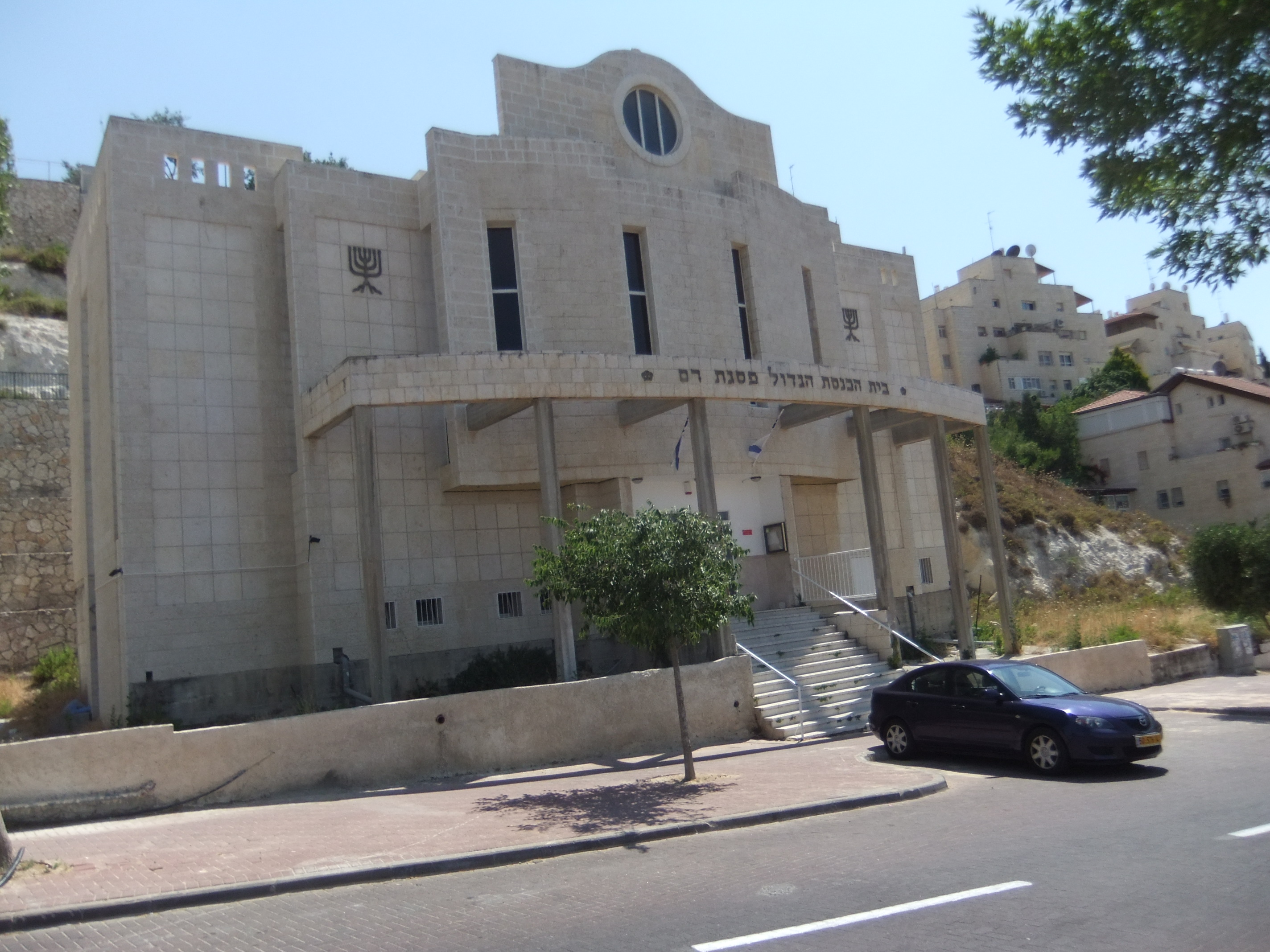 Pisgat Zeev Shool